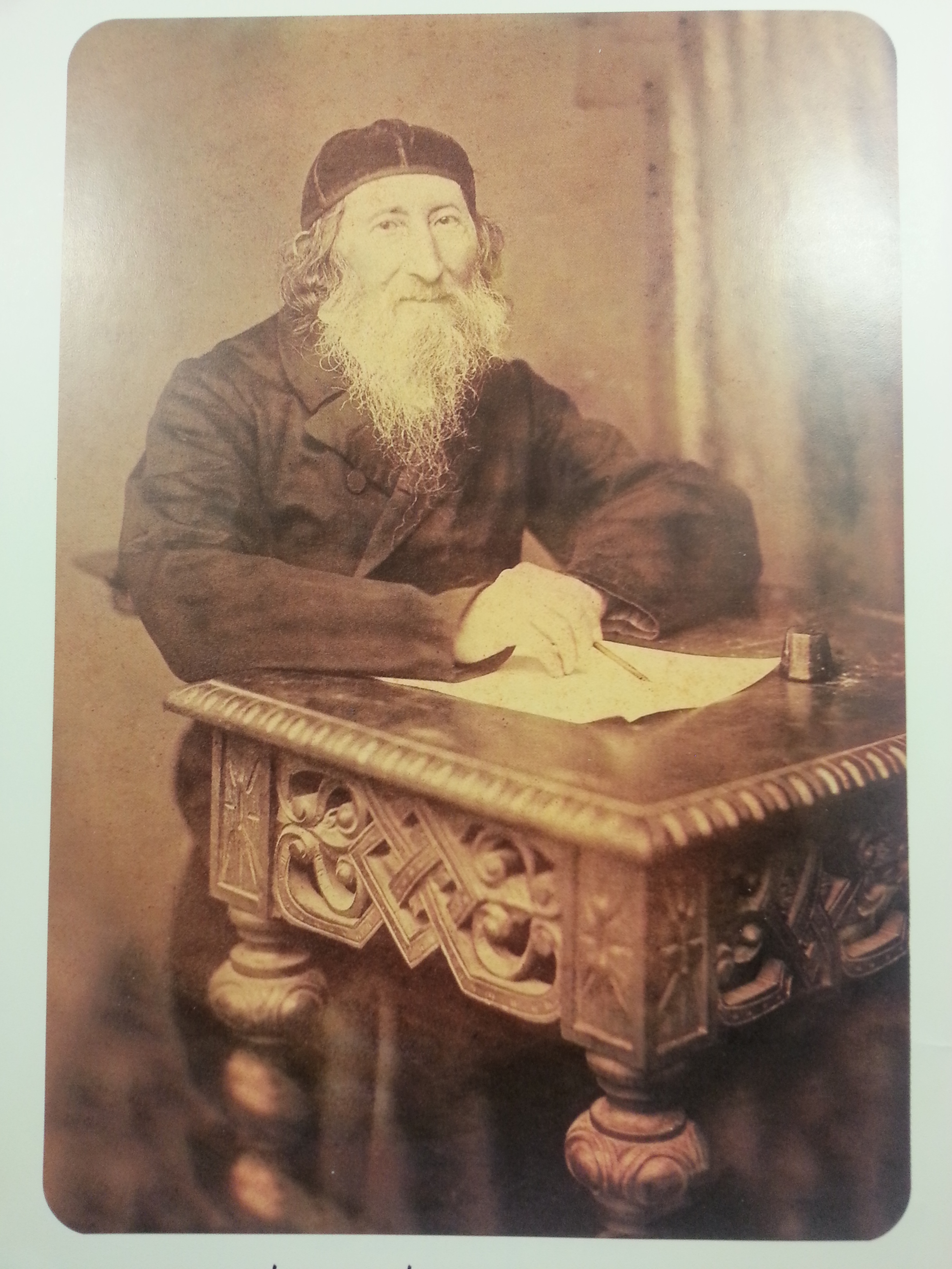 Portrait of Zvi Hirsch Kalischer (1795-1874)